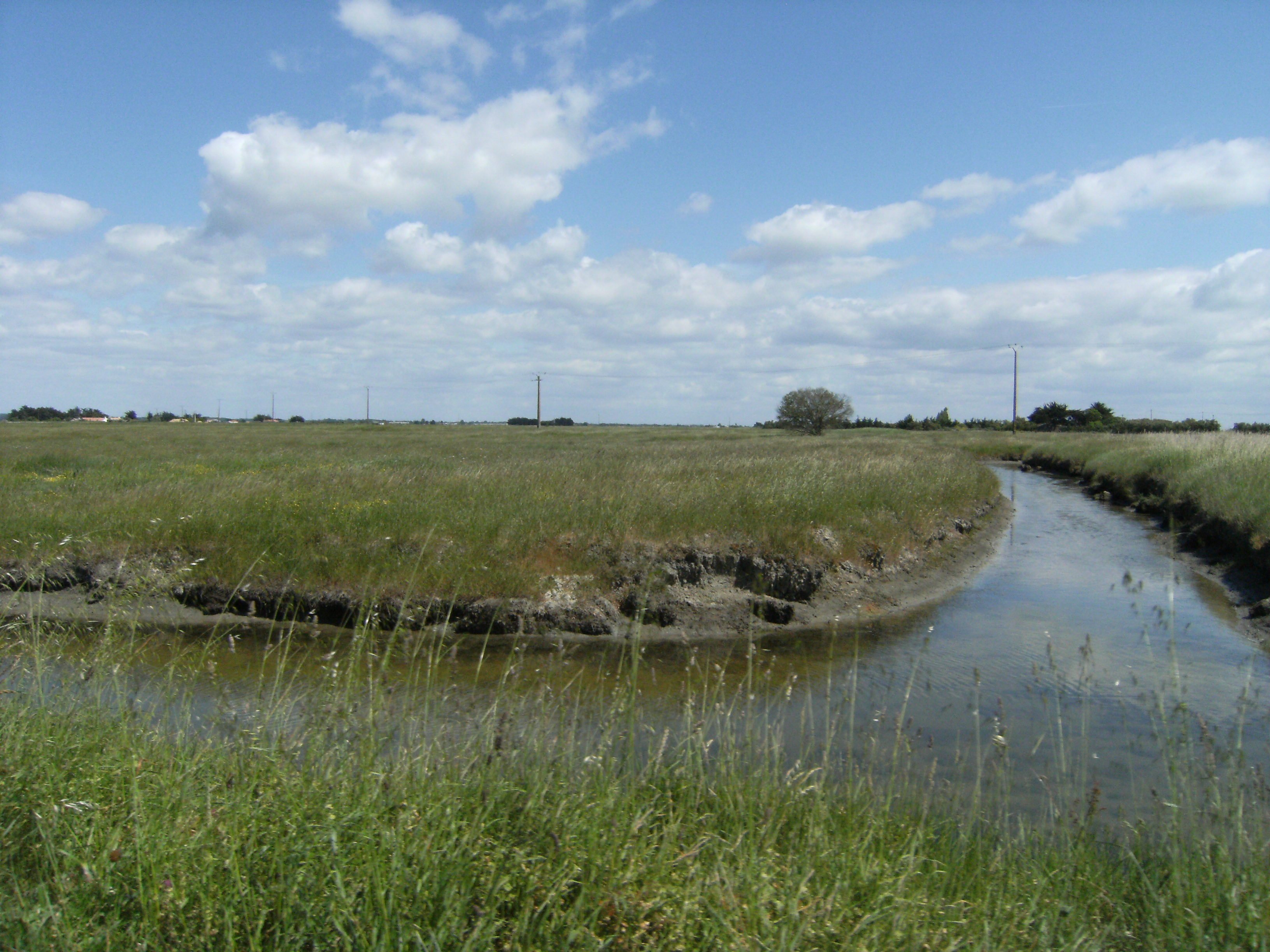 Marsh of Vendée, near the old Beauvoir, formerly Ampanus, at the site known as Étier de l'Ampan. An "étier" is a feeder canal carrying seawater into salt evaporation ponds.